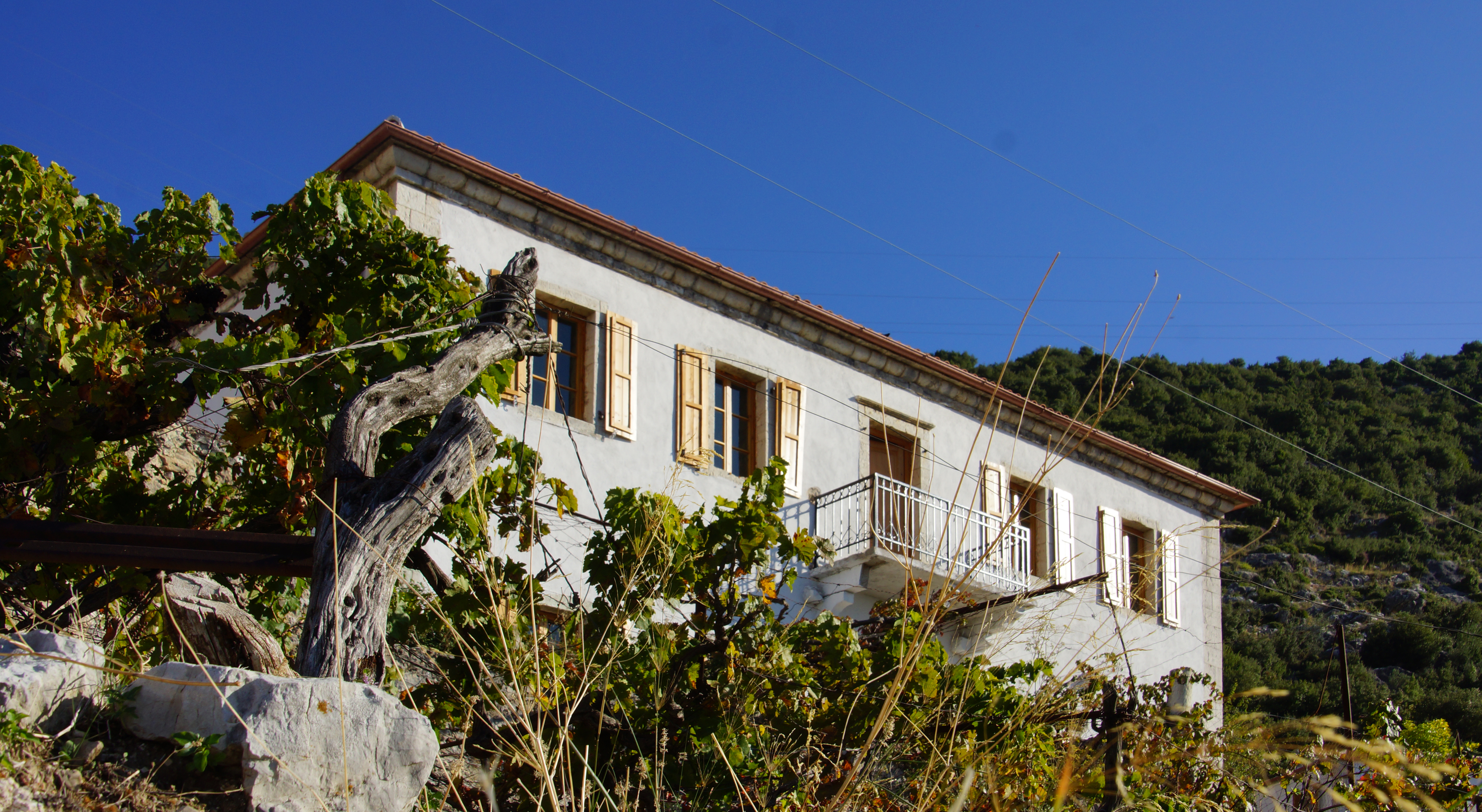 Photo realized during the expedition around Albania for the project The Albanian House